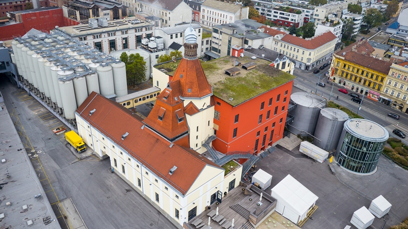 Ottakringer Brewery Vienna from above